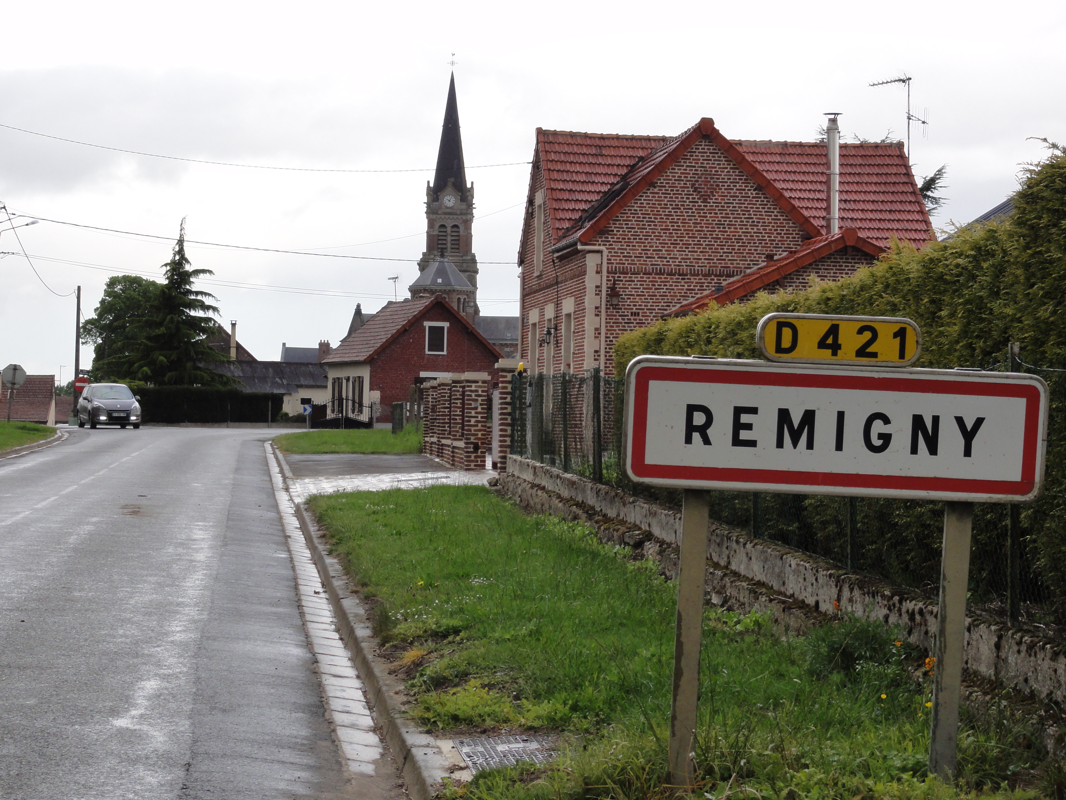 Remigny (Aisne) city limit sign